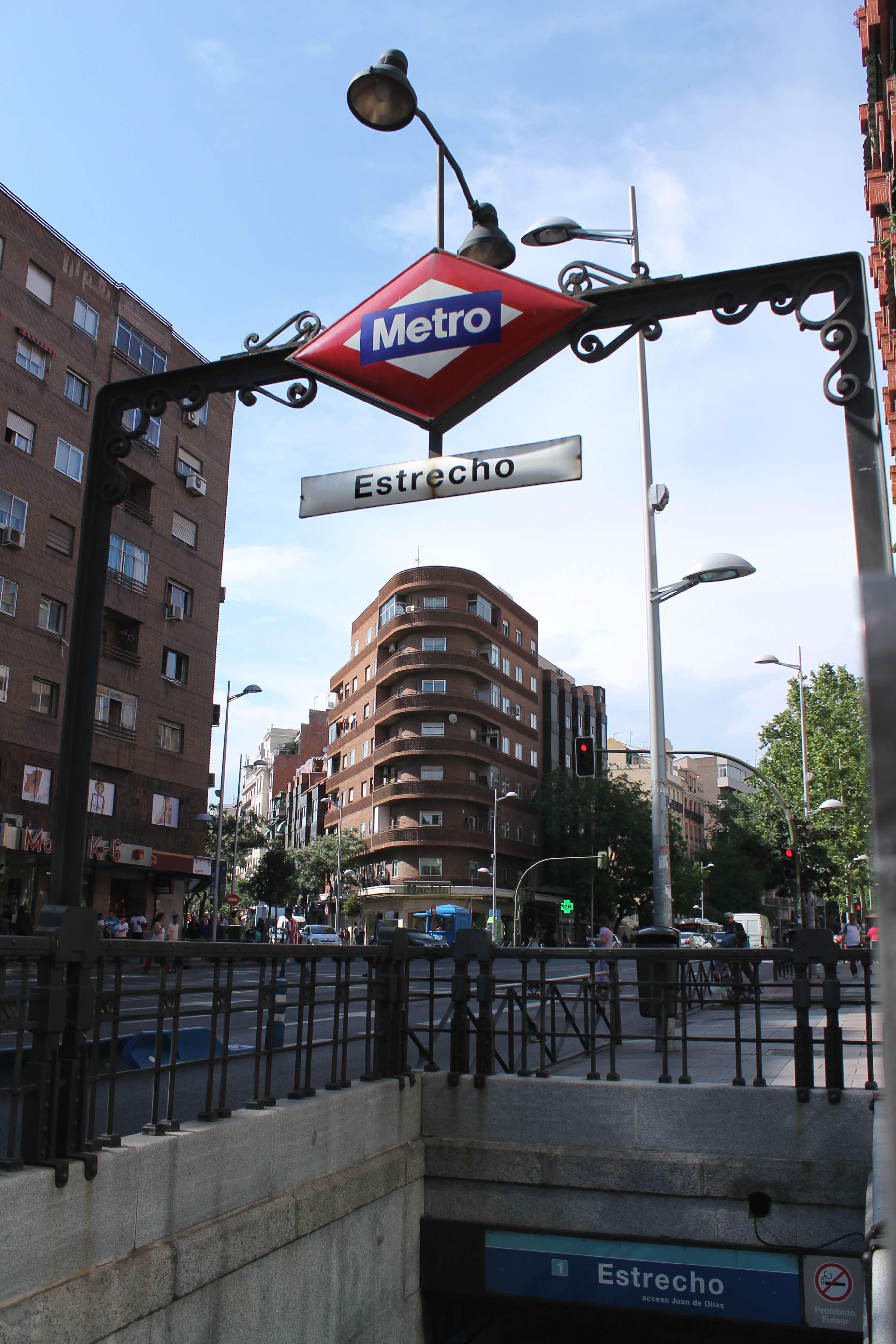 Entrance of Estrecho metro station in Madrid (Spain), at 172 Calle de Bravo Murillo (street) in Tetuán district.